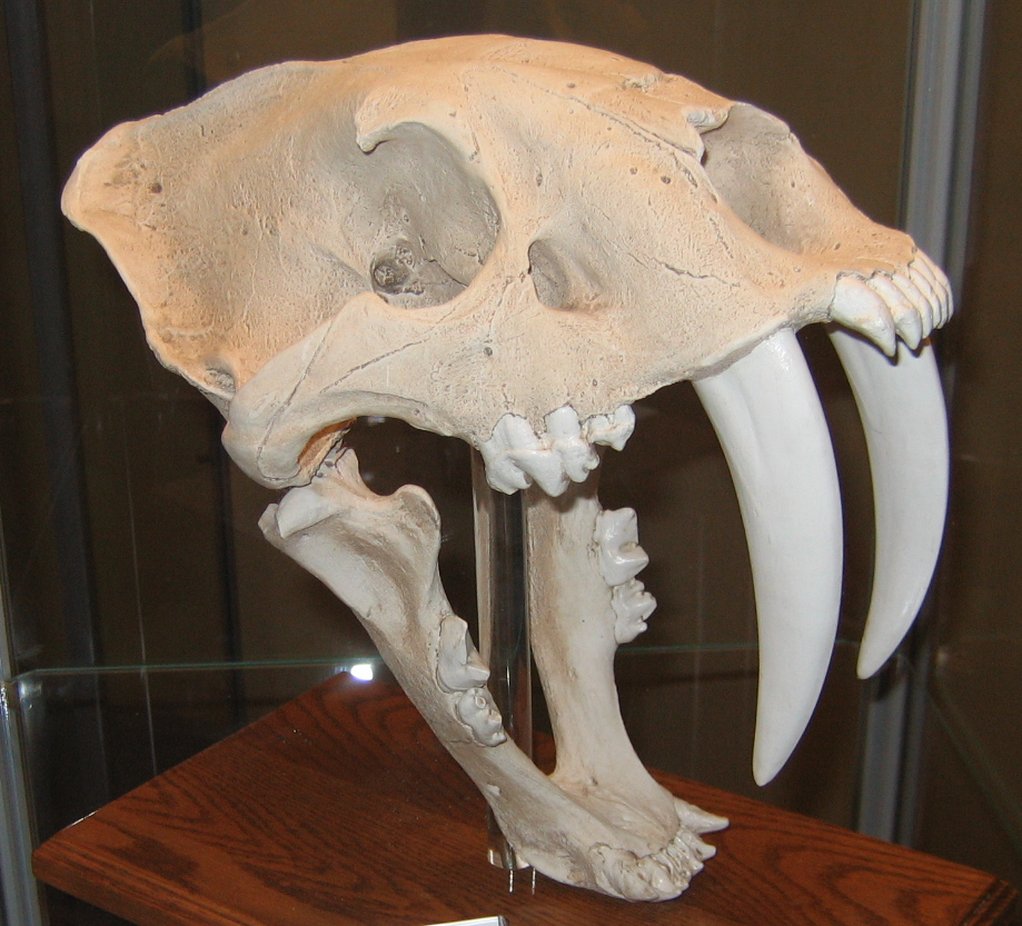 Smilodon skull replica from Warsaw Evolution Museum.